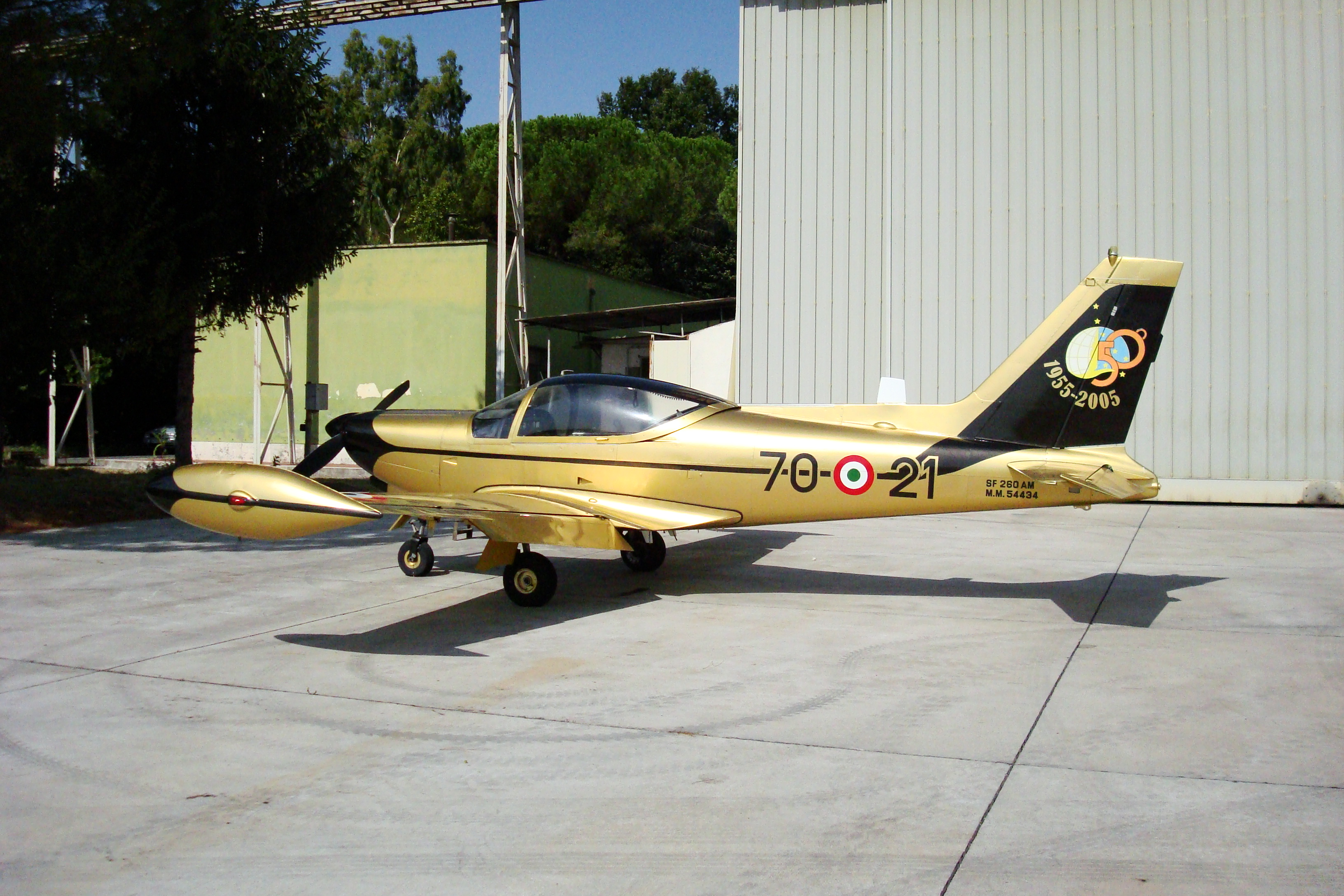 Special Color of the SF260AM in order to celebrate the 50 years of 70° Stormo of the Aeronautica Militare Italiana. The livery has been devised from Maresciallo Mirko Porcelli while the logo present on the drift it has been devised from the Maresciallo Pietro Freiles.